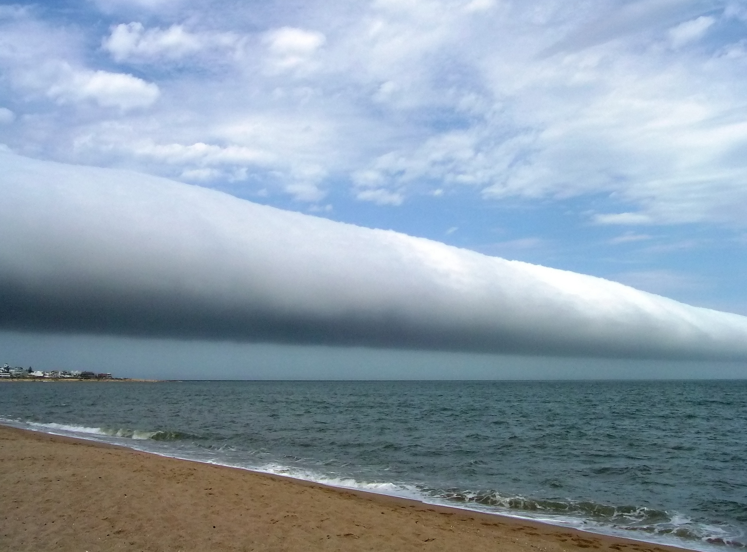 Roll Cloud seen on January 25th 2009, in "Las Olas Beach" located in "Punta del Este" (Country: Uruguay, State: Maldonado)